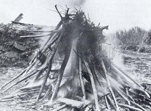 Cherry trees given by the City of Tokyo to the United States to plant along the Potomac River being burned after being discovered to be infested by agricultural pests and disease